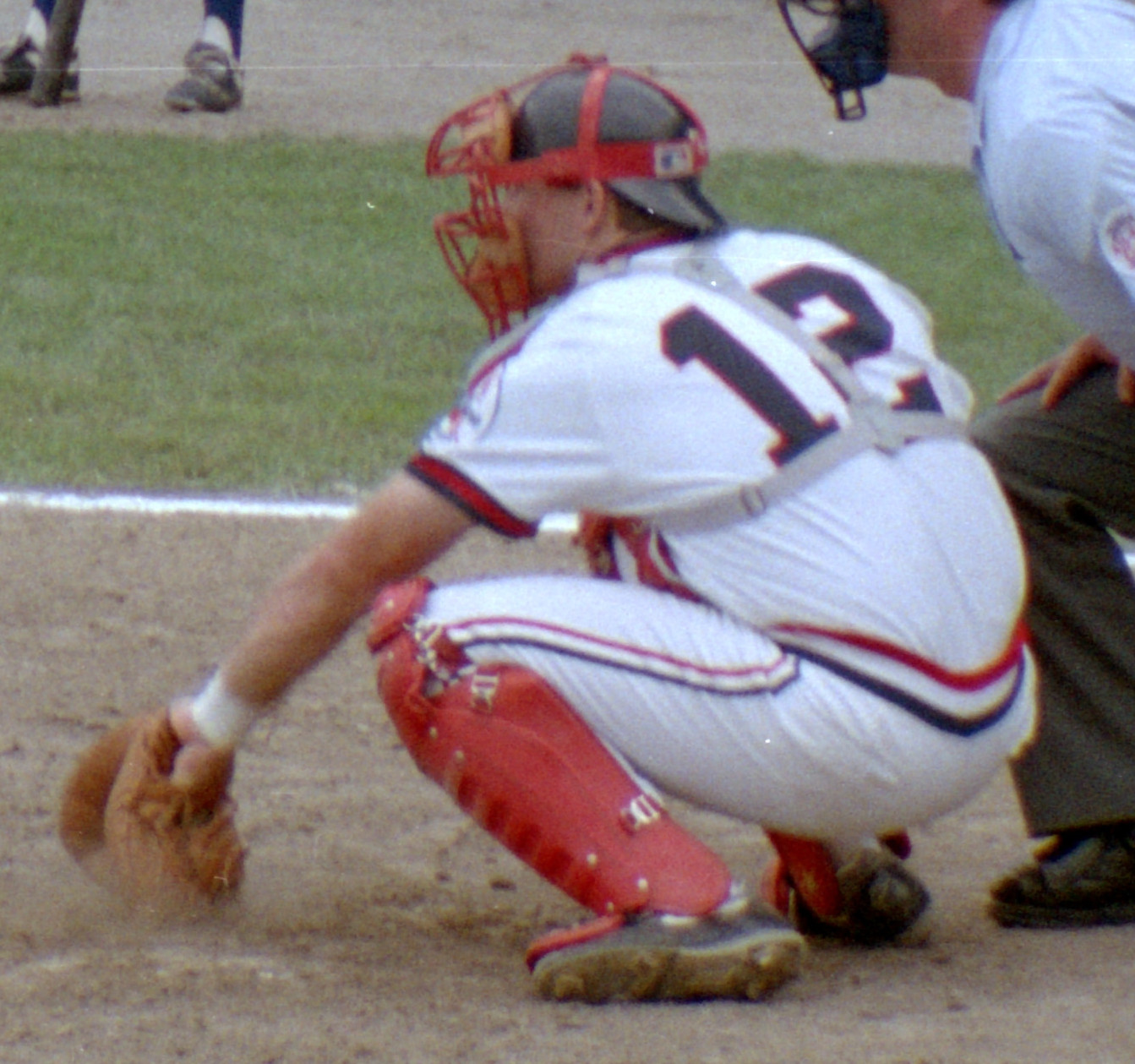 Rich Rowland catches for the Toledo Mud Hens and possibly Jeromy Burnitz bats for the Tidewater Tides during a June 1992 game at Ned Skelton Stadium in Toledo, Ohio.